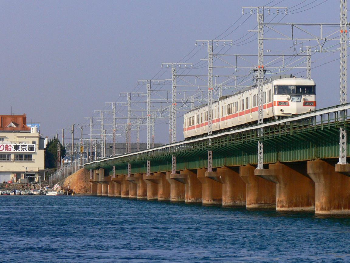 Lake Hamana and Tōkaidō Main Line.